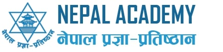 Logo of Nepal Academy